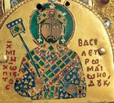 icon of Byzantine emperor Michael VII Doukas (1050–1078) on the back of the Holy Crown of Hungary. Ducas Mihály VII bizánci császár.